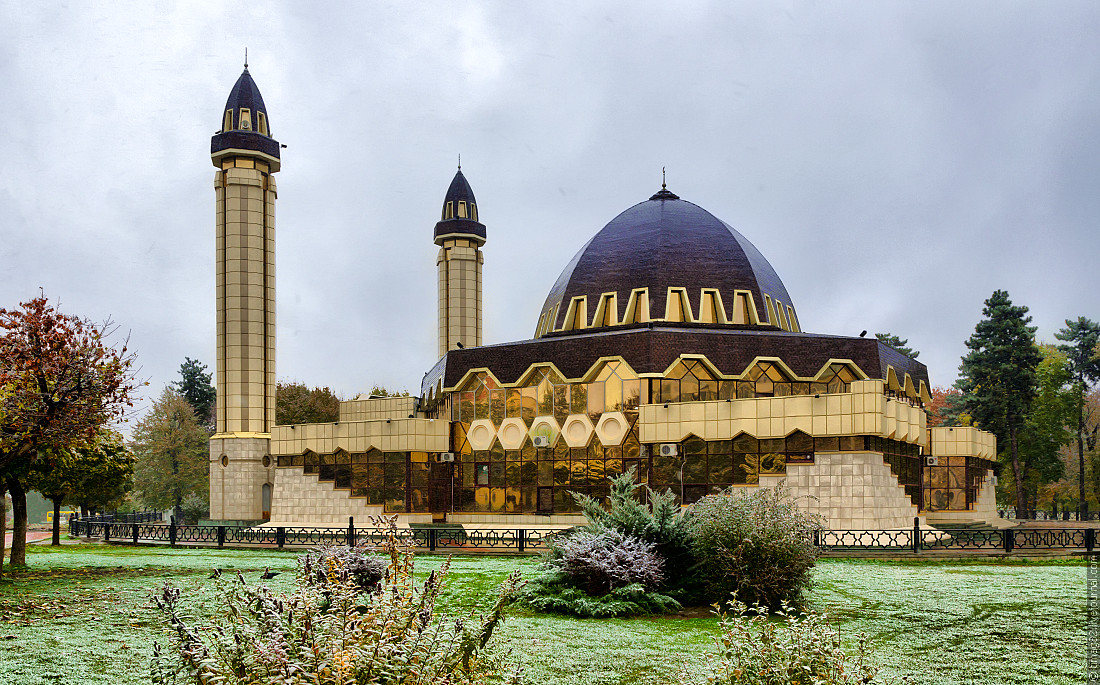 Соборная мечеть в городе Нальчик.